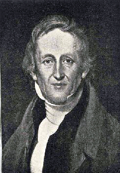 Henry St. George Tucker, US Representative from Virginia